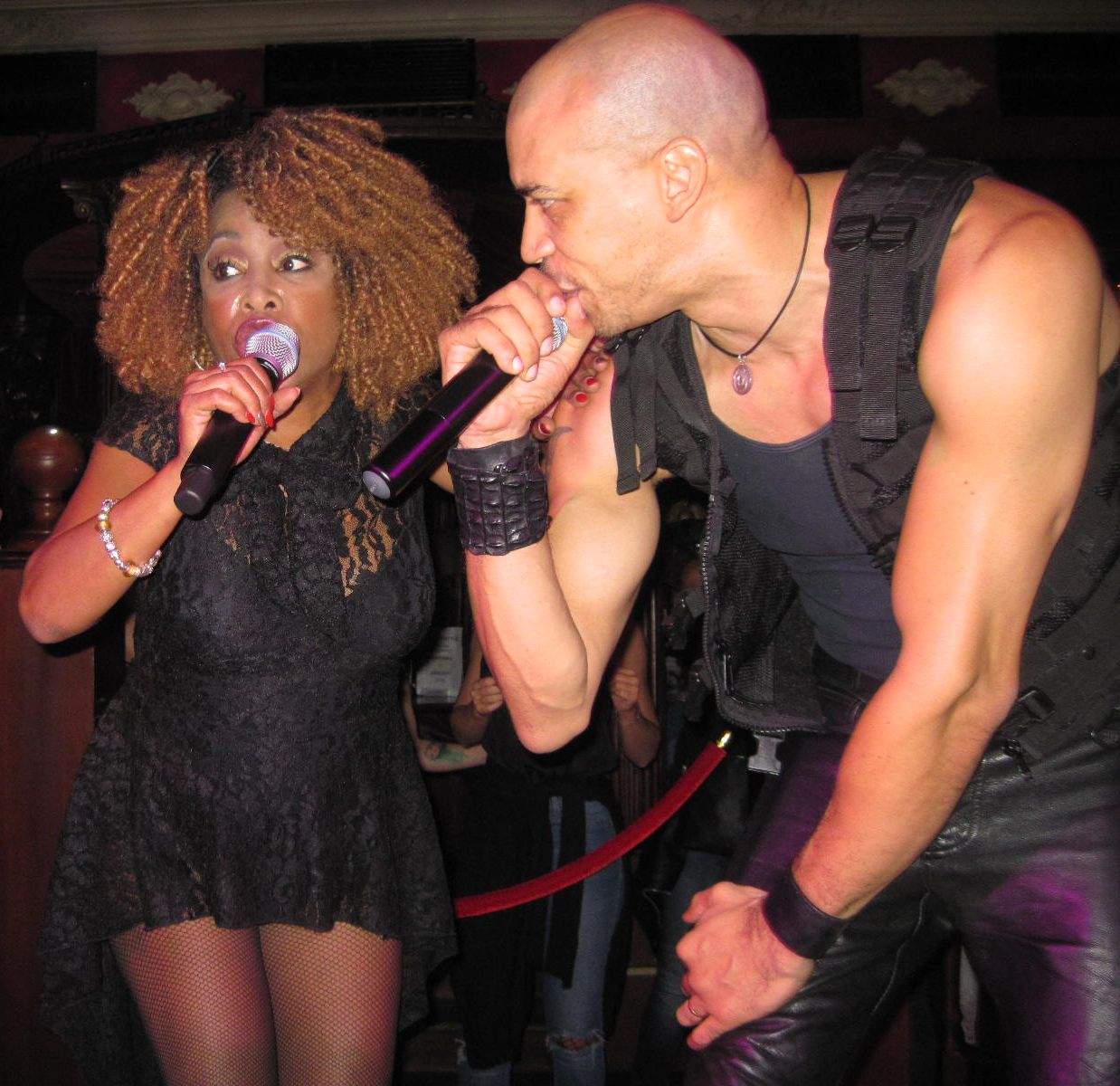 Penny Ford and Rapper Benjamin Lowe alias Stoli from Snap! at A-Danceclub (Vienna)